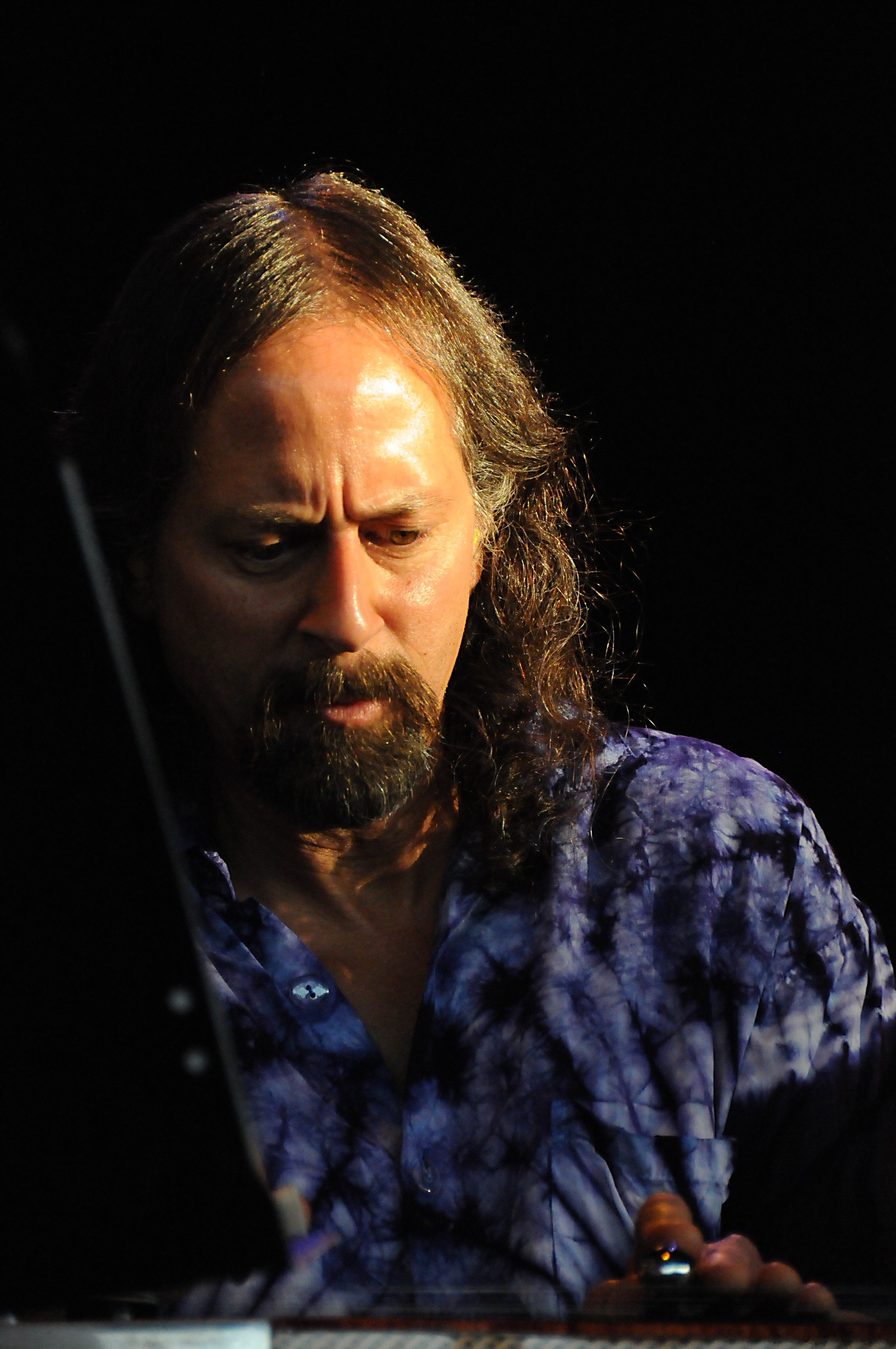 Barry Sless performing with Phil & Friends Raleigh NC, USA 10/3/08. Sless has worked with the Grateful Dead and a lot of Jam Bands in the USA.